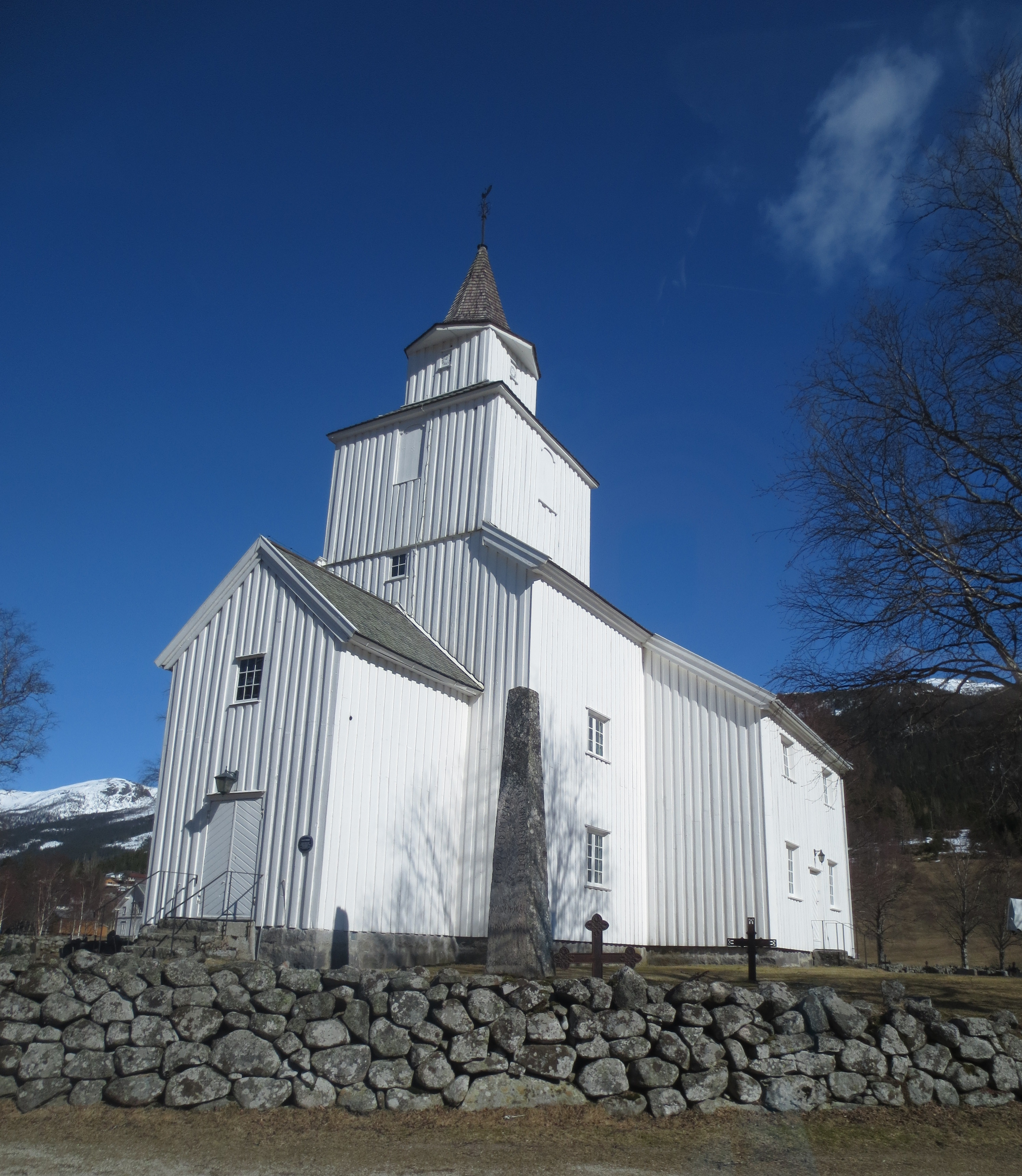 Valle church. The memorial in front of the church is to Ole Knudsen Tvedten, who served as a representative at the Norwegian Constituent Assembly in 1814. Valle municipality is the second from the north in the Setesdalen valley, Aust-Agder county, Norway.